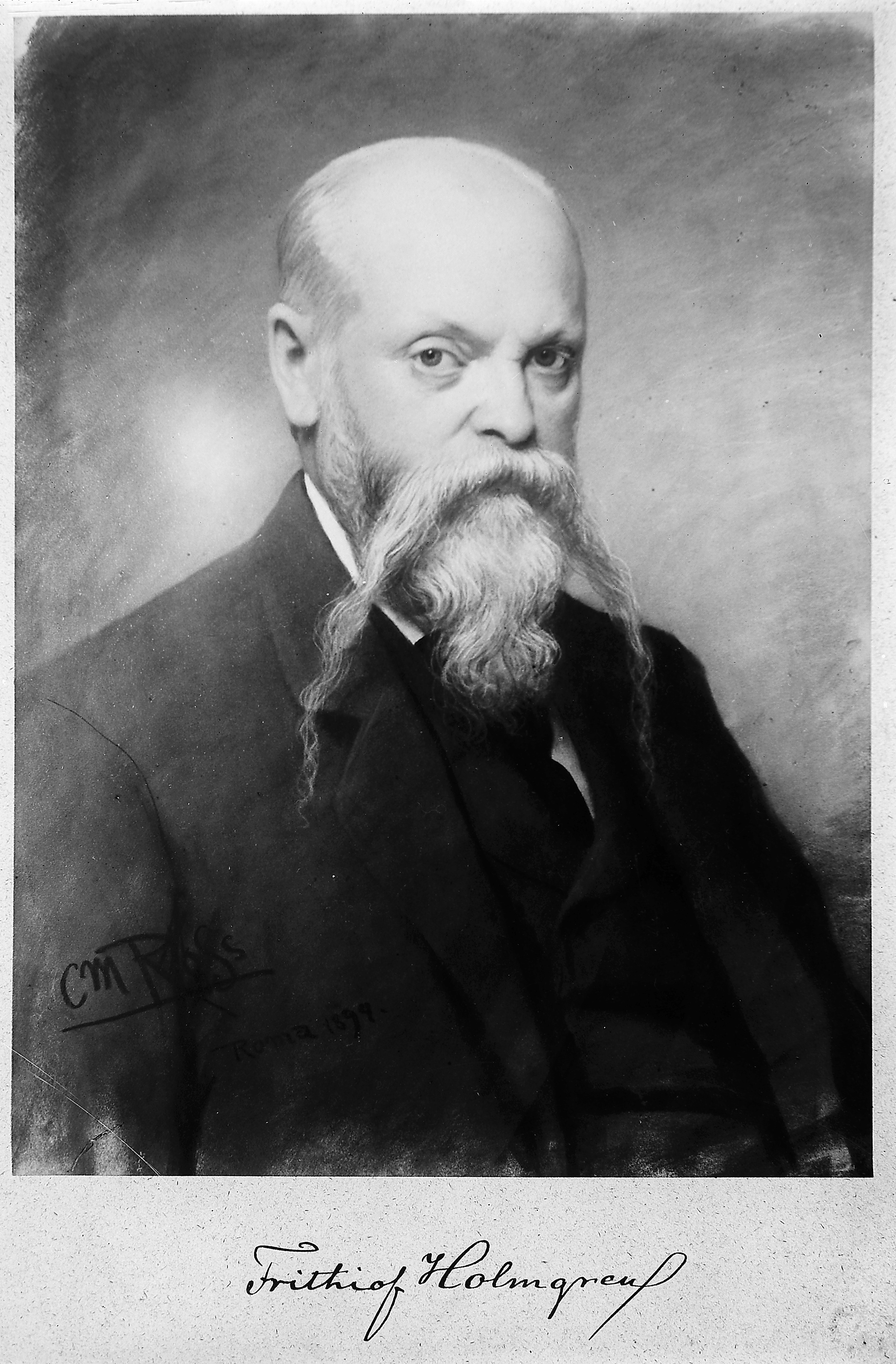 Portrait of Alarik Frithiof Holmgren, 1/2 length to right. Iconographic Collections Keywords: Holmgren, Alarik Frithiof; CM